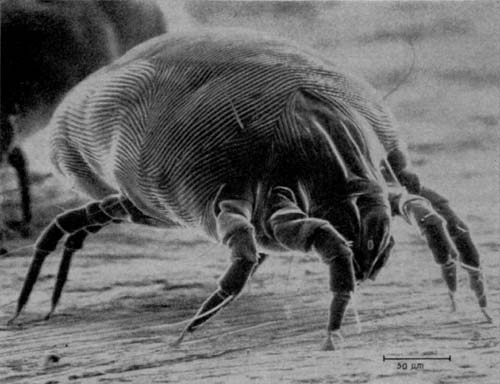 North American House Dust Mite, a major creator of allergens.